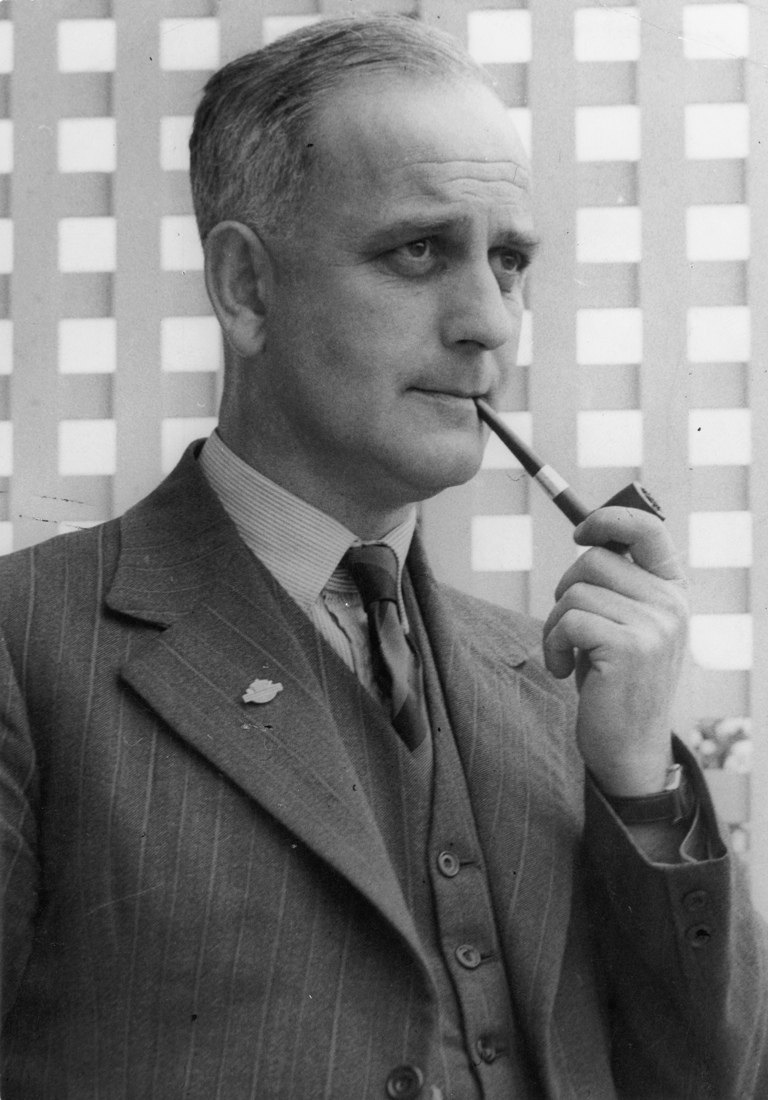 Josiah Ralph Hanan, circa 1946. Photographer unidentified.